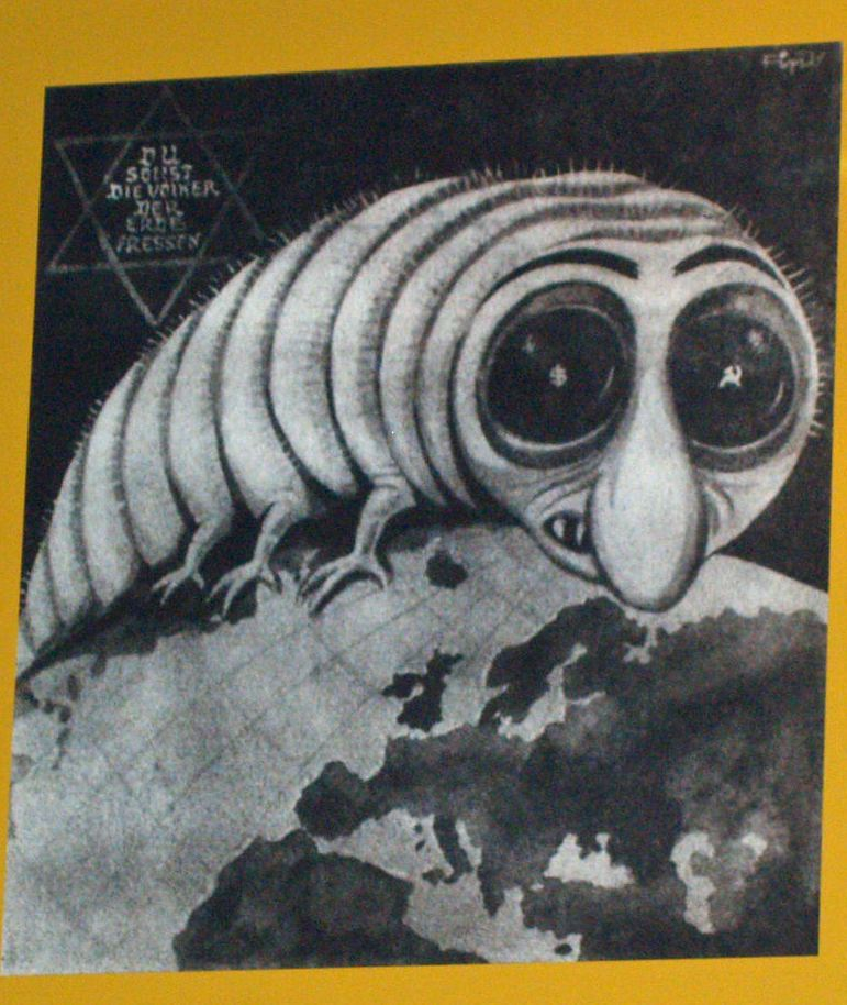 Antisemitic propaganda in Nazi Germany: a depiction of Capitalist/Communist Vermin in Der Stürmer, September 1944